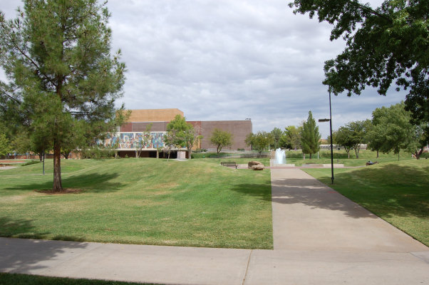 Part of the campus of Dixie College.